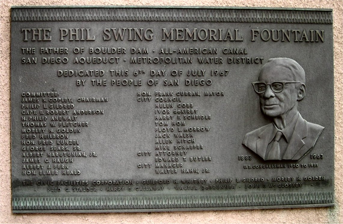 Phil Swing memorial plaque, southeast corner of San Diego Civic Center. The fountain itself sits unused and forgotten.